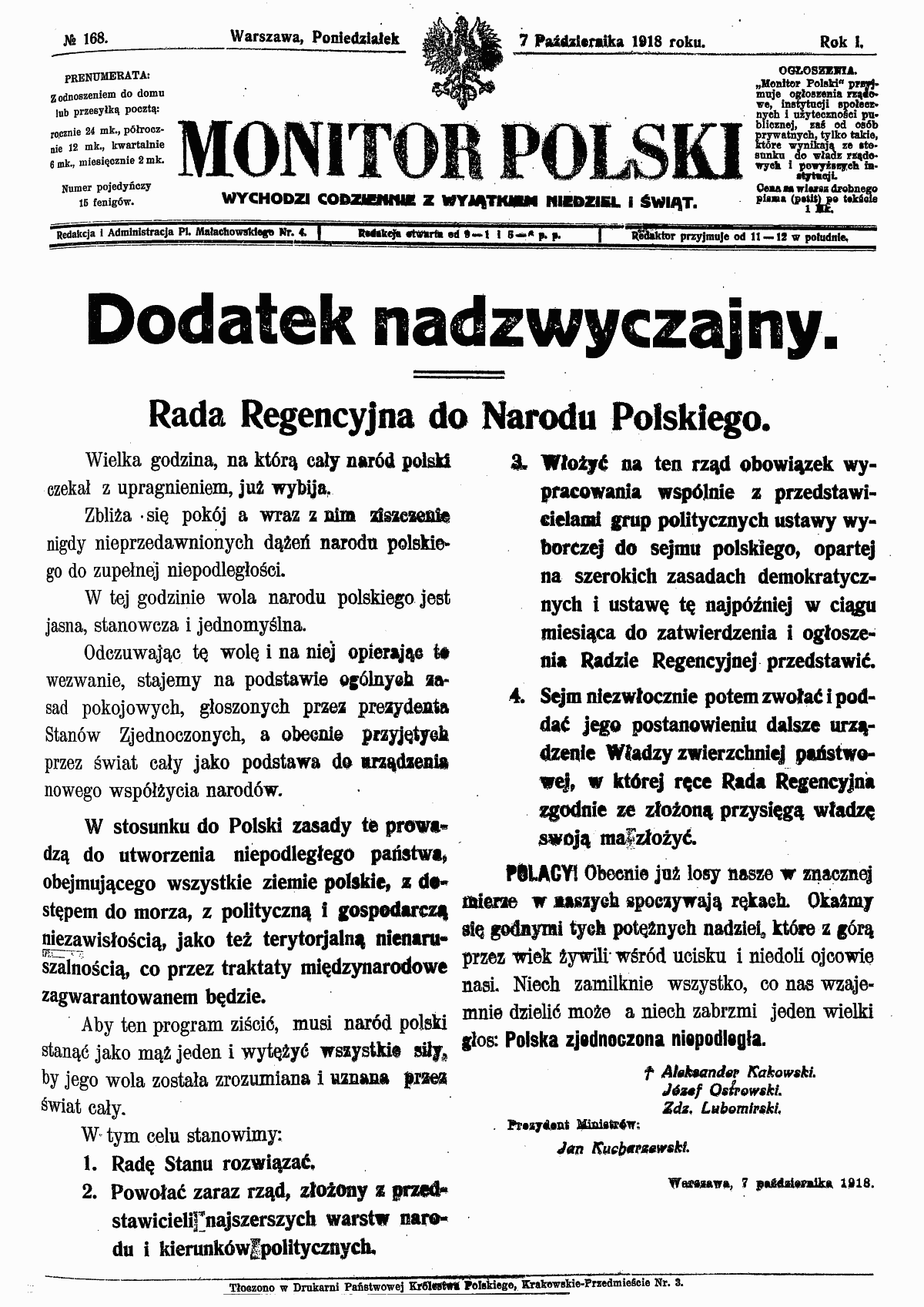 Declaration of independence of Poland, 1918